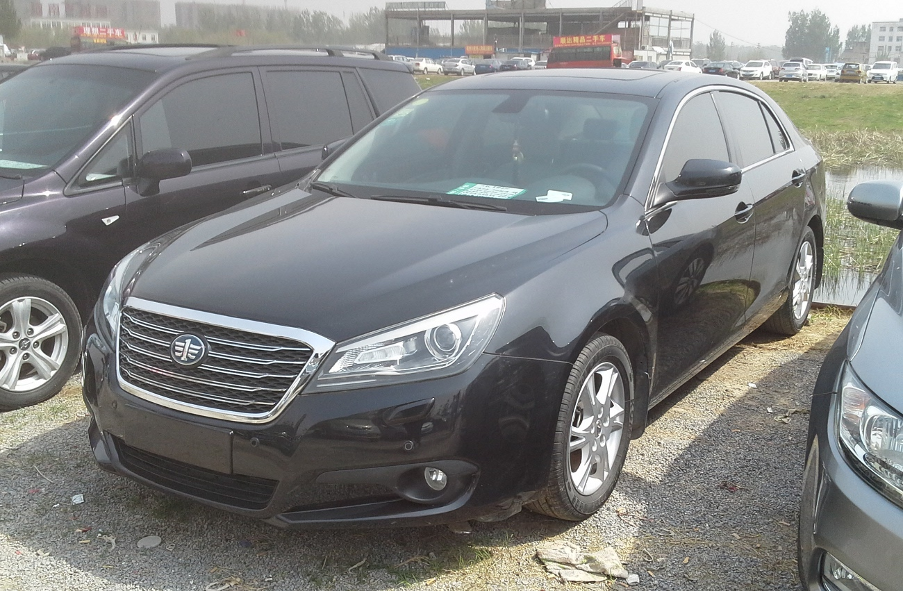 Besturn B90 photographed in Zhengzhou, Henan province, China.